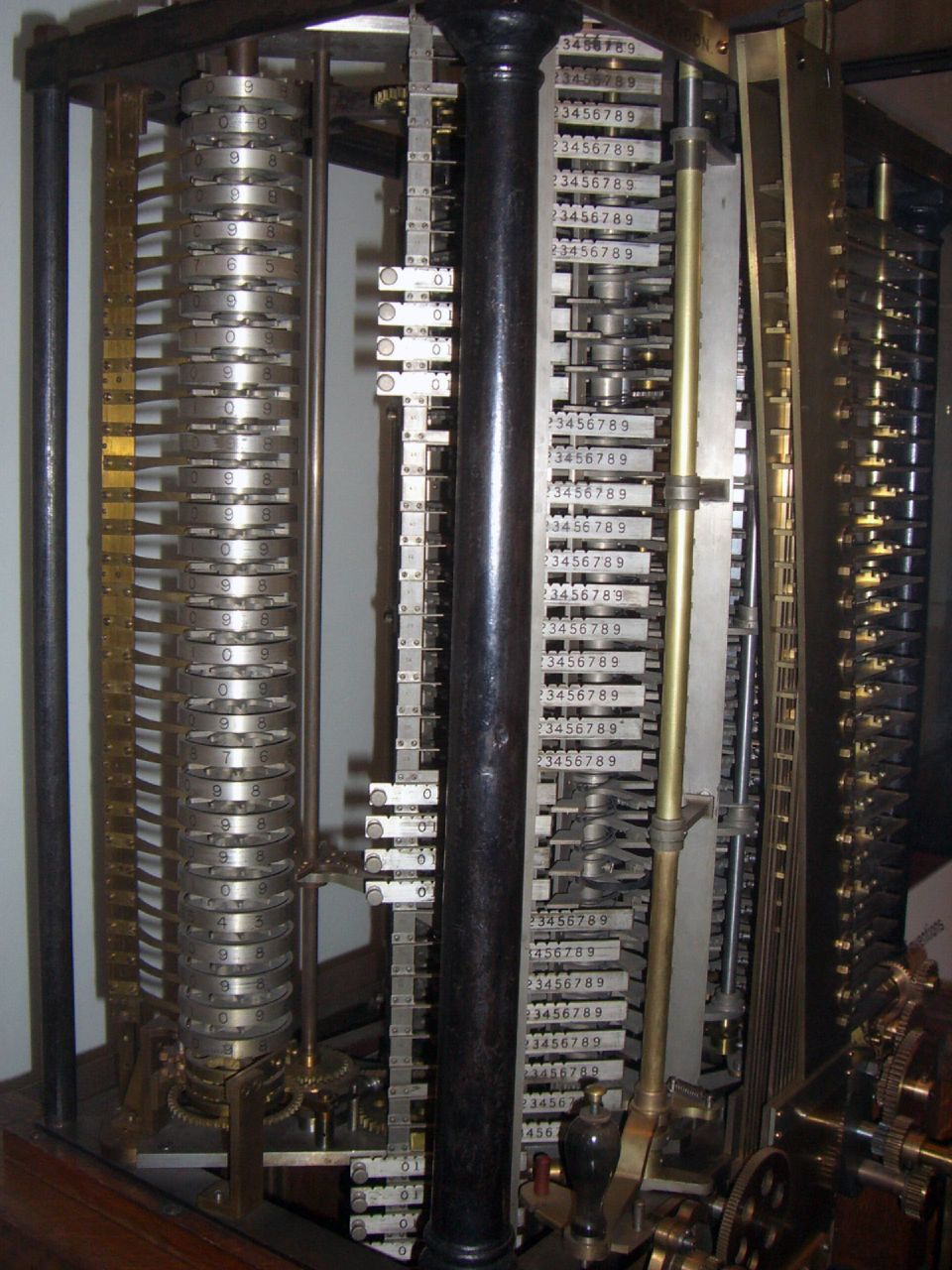 Analytical Engine